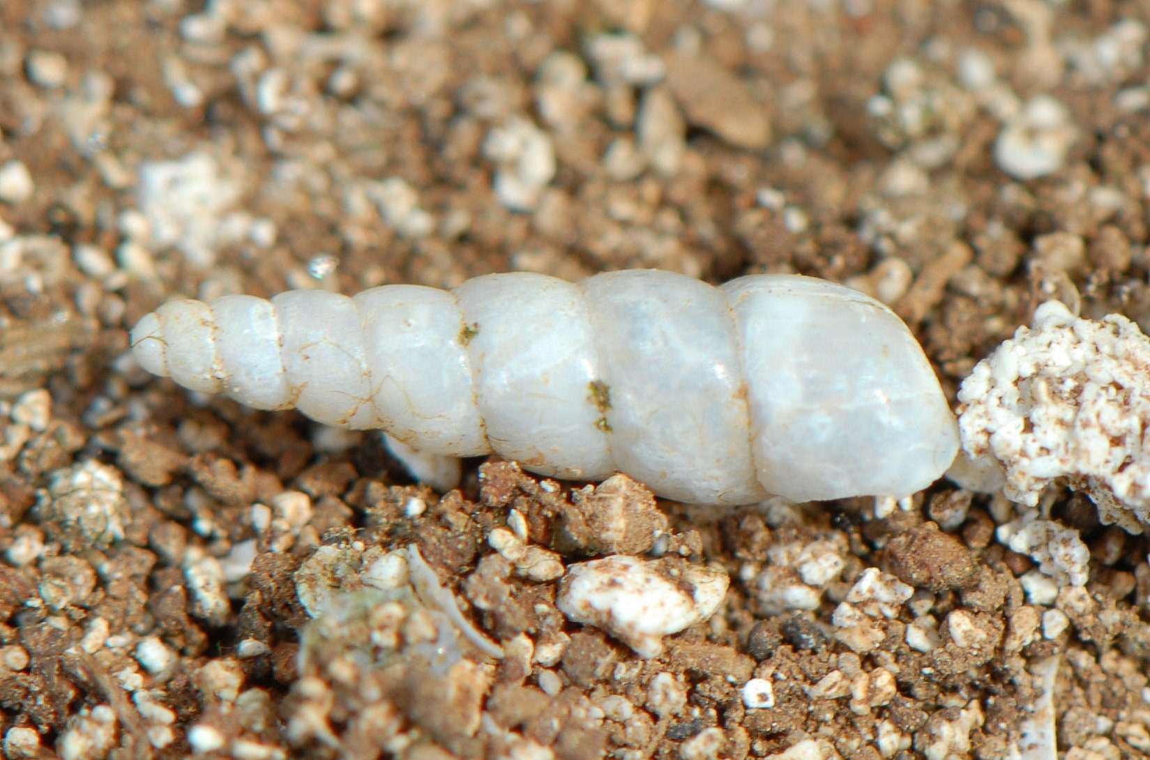 Subulina octona. Locality: BDA: 32°19' 59" N x 64°42' 29" W, 22 Harrington Sound Road, Hamilton Parish, Bermuda, 27 July 2009, coll. Sam Fraser-Smith.